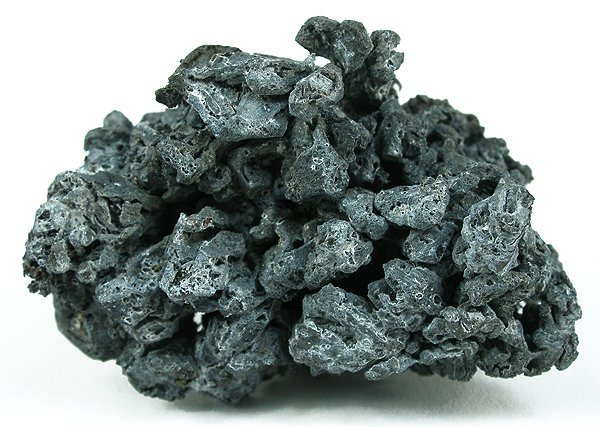 Lead Locality: Långban, Filipstad, Värmland, Sweden (Locality at ) Size: 5.1 x 3.5 x 3.2 cm. A great, old classic. This is a dense, heavy (131 grams) specimen of lead which is composed entirely of hoppered growth crystals to 1.0 cm in length. Native lead with well-developed crystals like this is extremely rare and desired by collectors of such oddities. In fact, lead is one of the more difficult of the common & major ore metals to obtain in native crystals; and the best really do come from just a few old mines in Langban and Harstigen, in Sweden. Such pieces mostly date to the 1800s or early 1900s (and this label is mid-1900s). Add to this that the location of the old and famous Langban Mine in Sweden has some value as well, and then this specimen becomes a treasure.